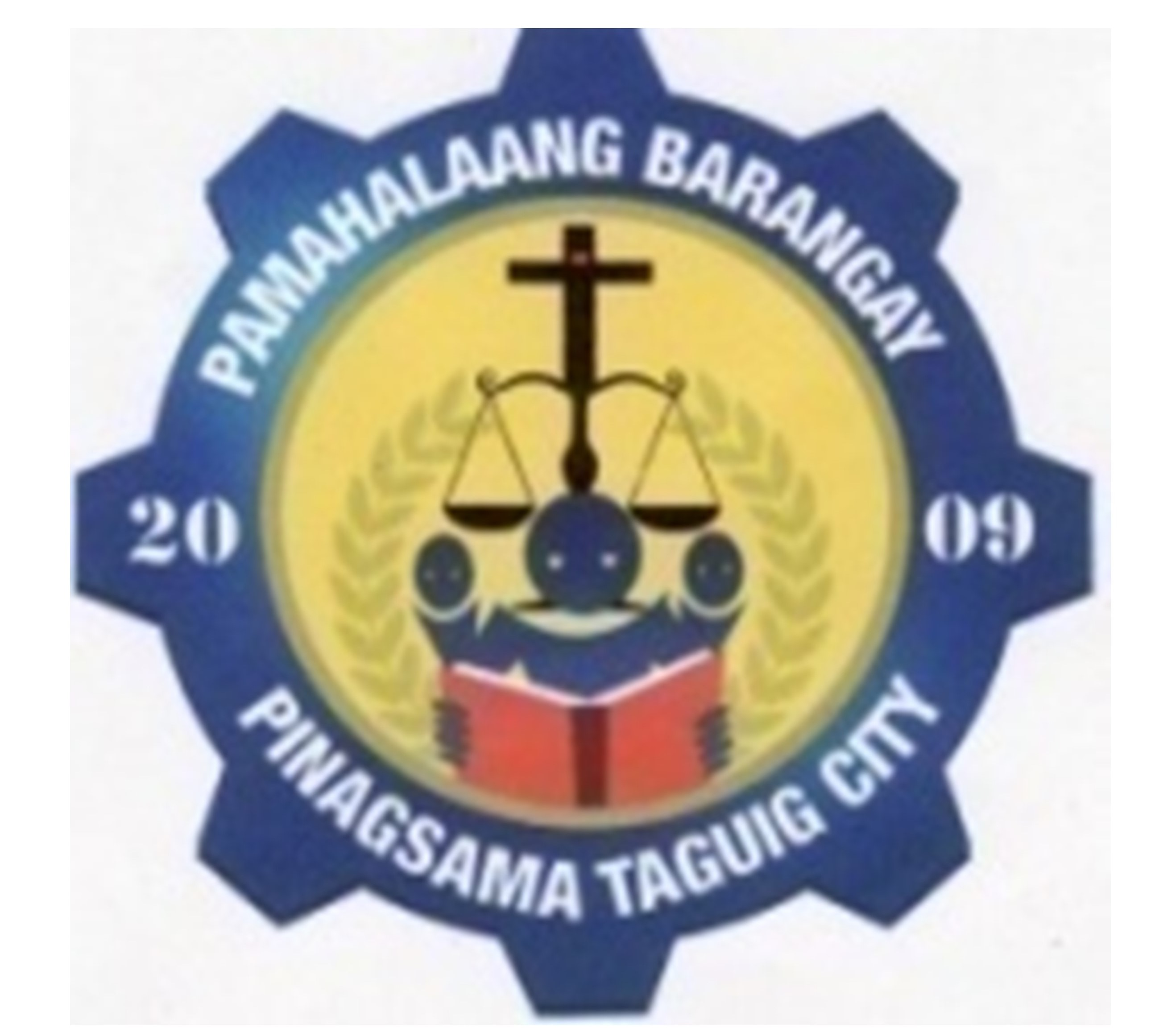 SEAL OF PINAGSAMA FROM 2009-2012